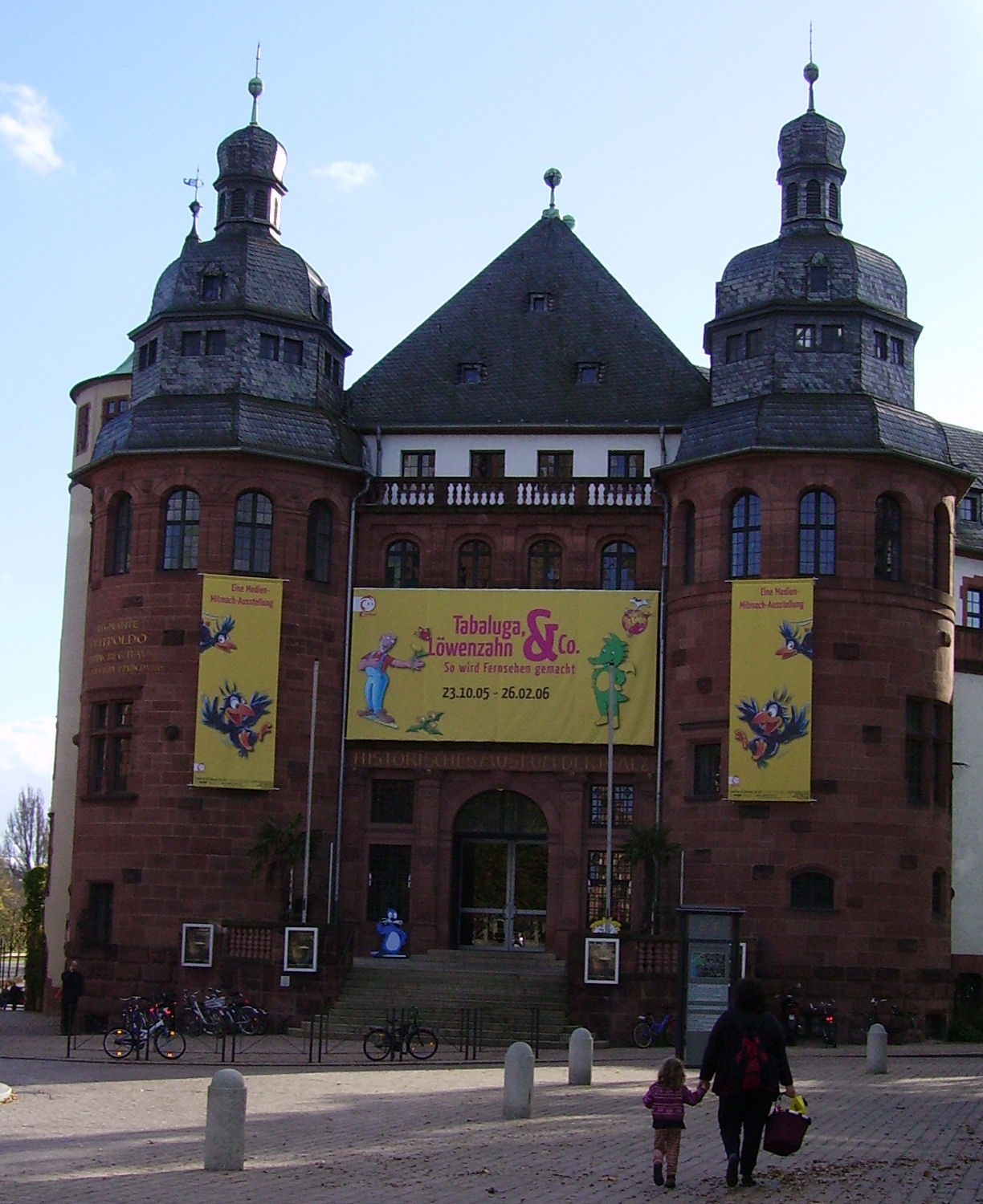 Description: "Historisches Museum der Pfalz" (Palatinate Museum of History) of Speyer, Germany) Source: own photography Date: November 2005 Author: --Immanuel Giel 12:32, 7 November 2005 (UTC) Other versions: none